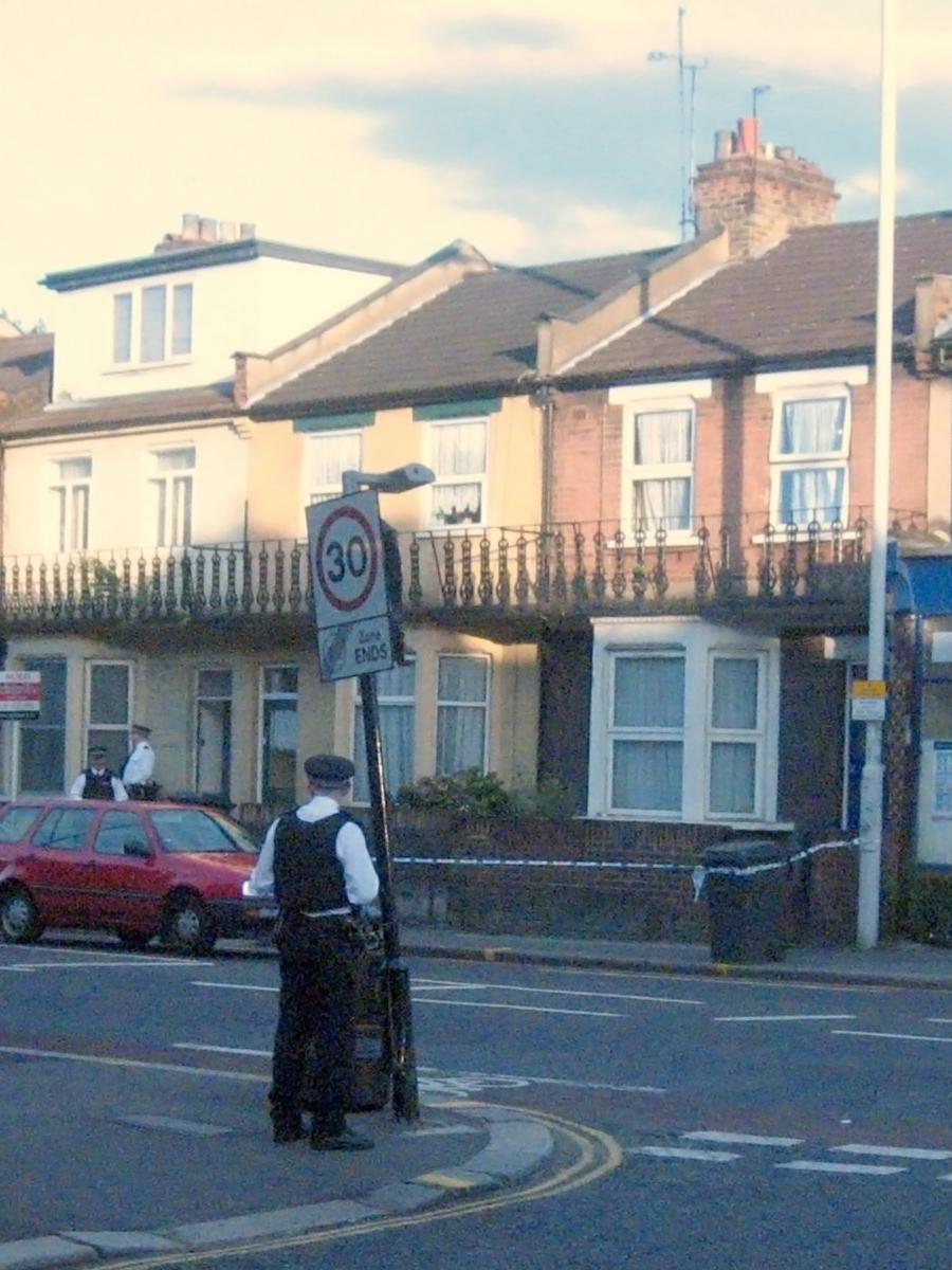 Scene of a police raid on Forest Road, Walthamstow, London, near the corner of Brookdale Road, 10 August 2006. This is a section out of a larger photograph and the colours have been corrected. Update #2: Smaller section reduced for noise.